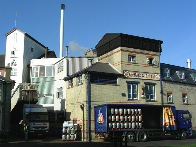 Adnams Brewery, Southwold The well know Suffolk beer maker - situated between the High Street and the Church